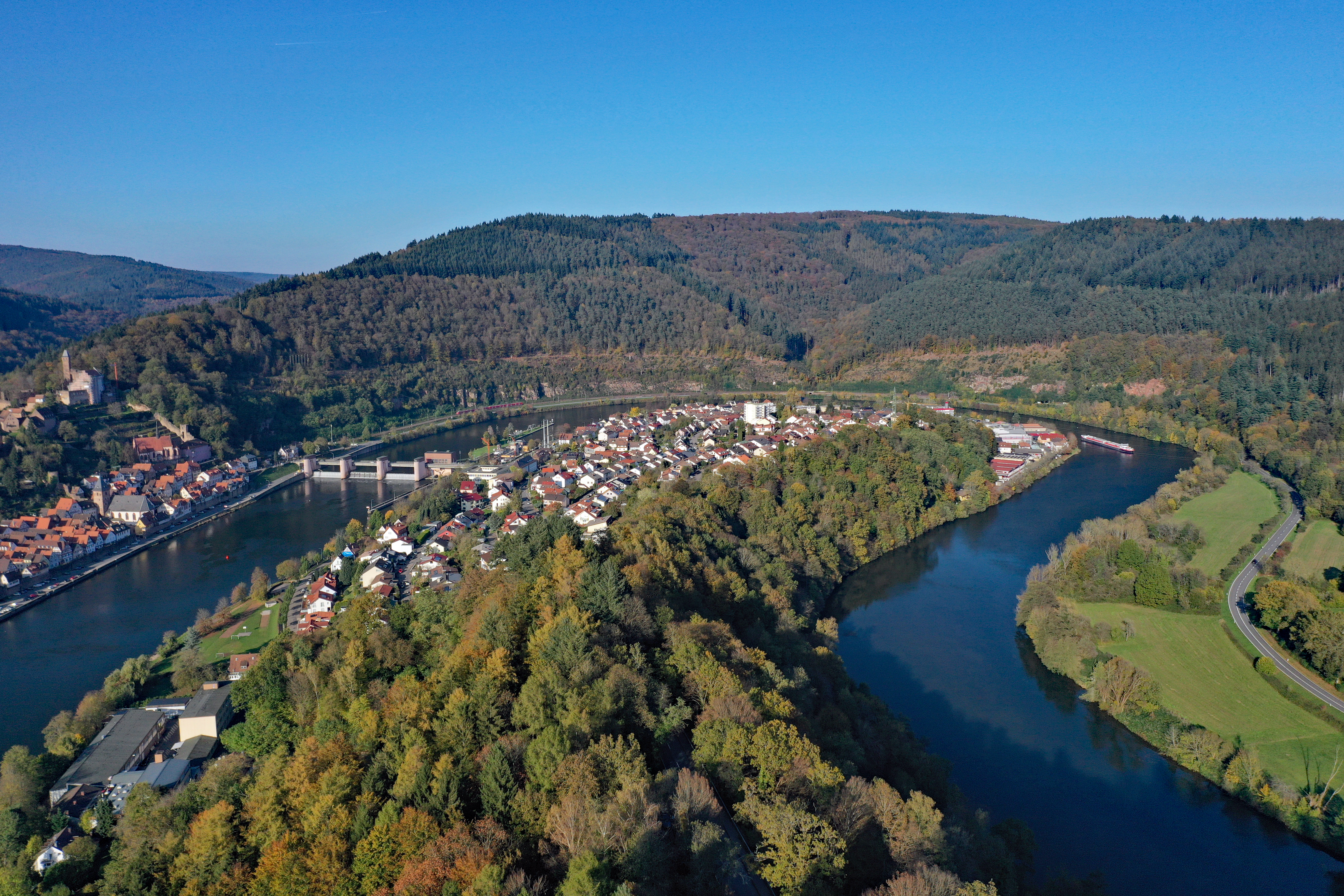 Hirschhorn (Neckar) (Bergstraße, Hesse, Germany)